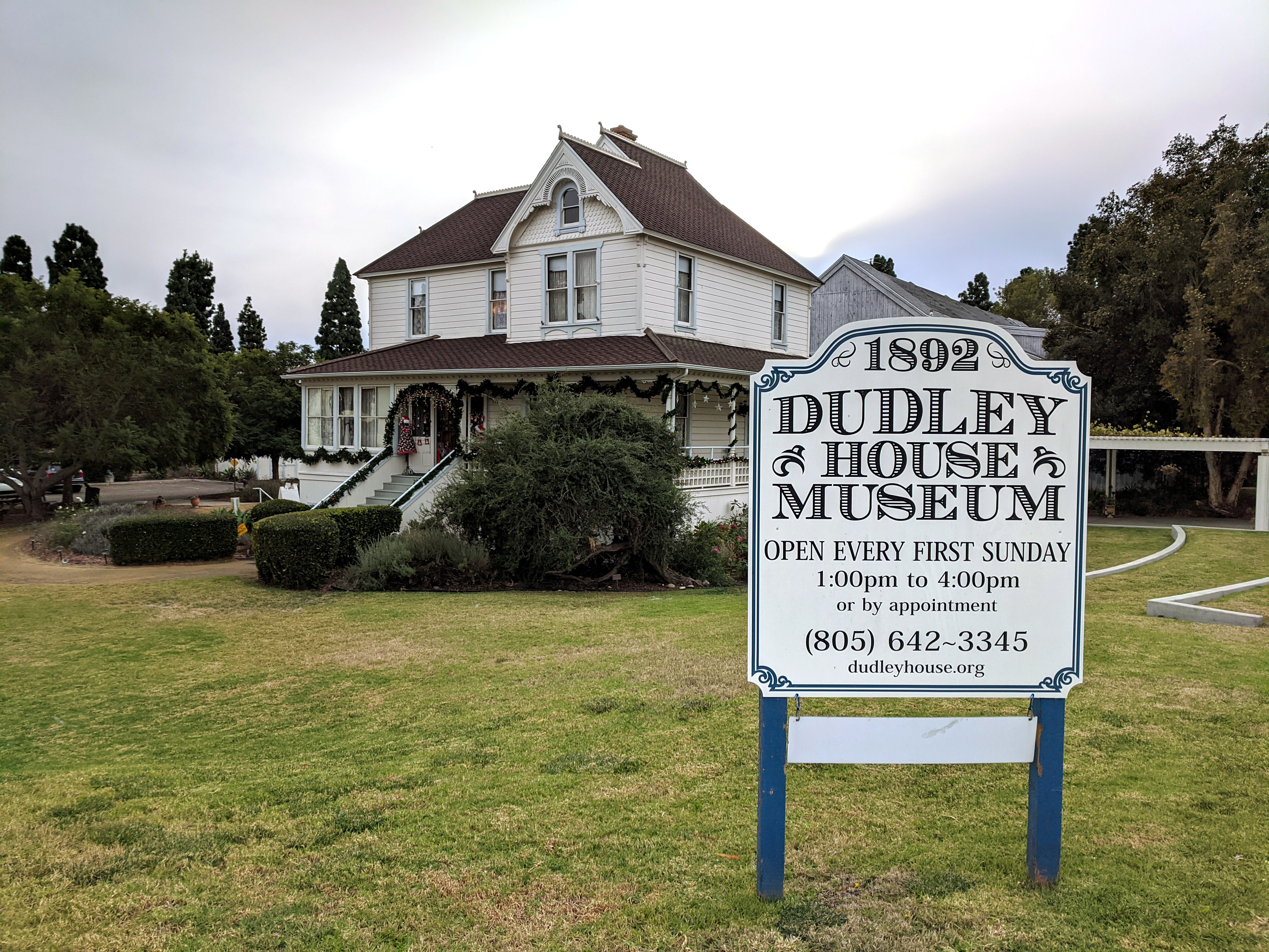 House is decorated for Christmas